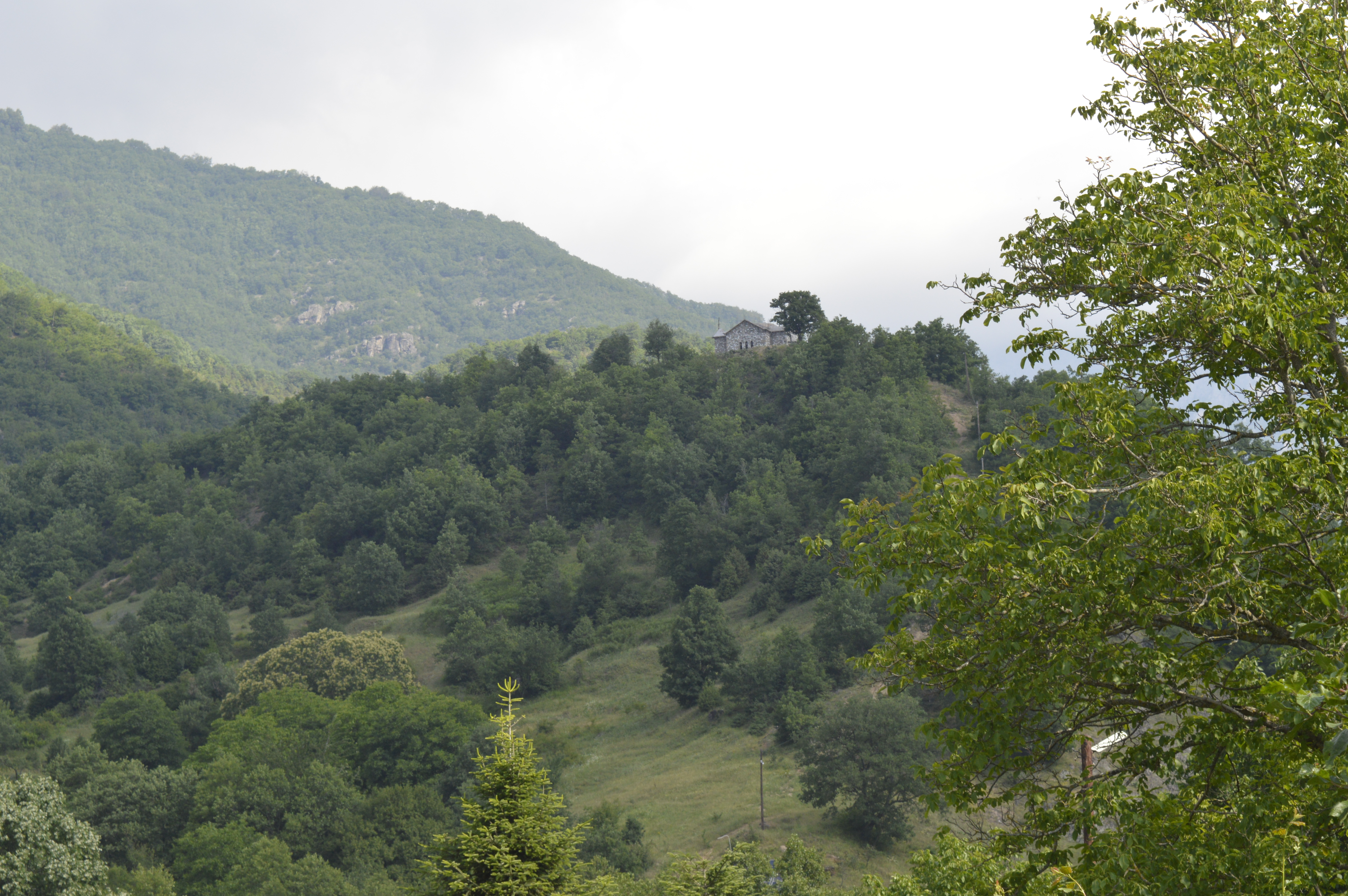 View of the St. Petka Church in the village Nežilovo